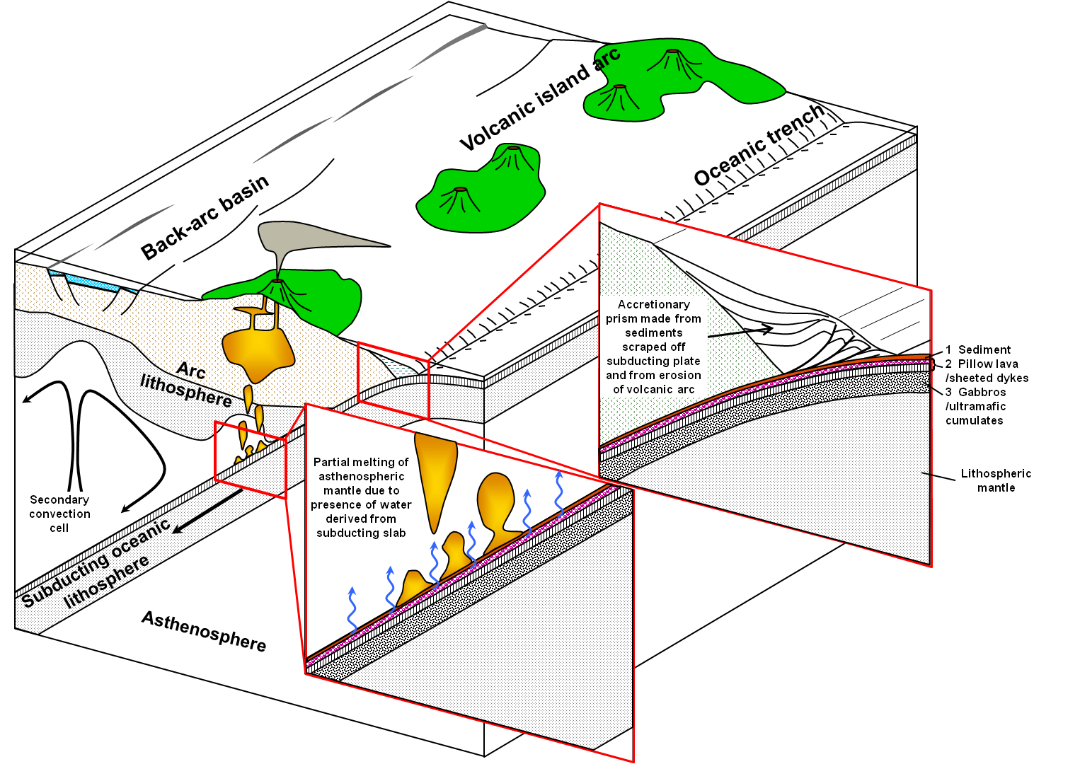 Diagram to explain processes associated with subduction (PNG version of diagram currently used on Wikipedia in a JPEG form)